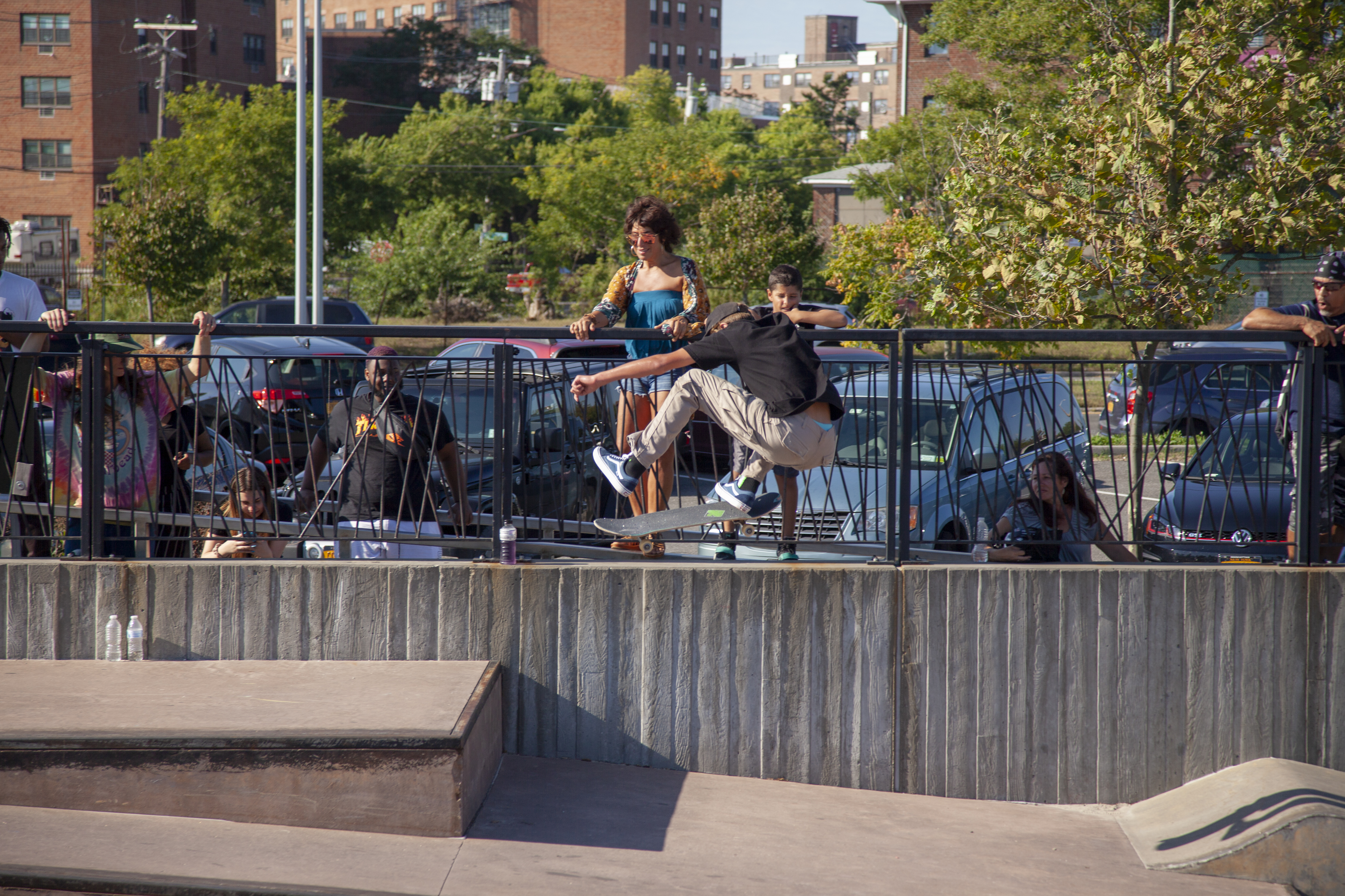 Cooper Qua with the kickflip transfer at Far Rockaway Skatepark - 2019 - Battle of the Beach 2 contest